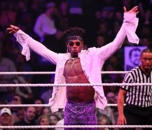 An image of Velveteen Dream making his debut.